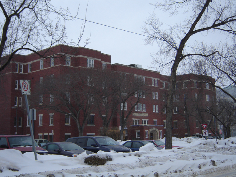 Saskatoon City Hospital Nurses Residence City Park , Core Neighbourhoods SDA, Saskatoon, Saskatchewan, Canada